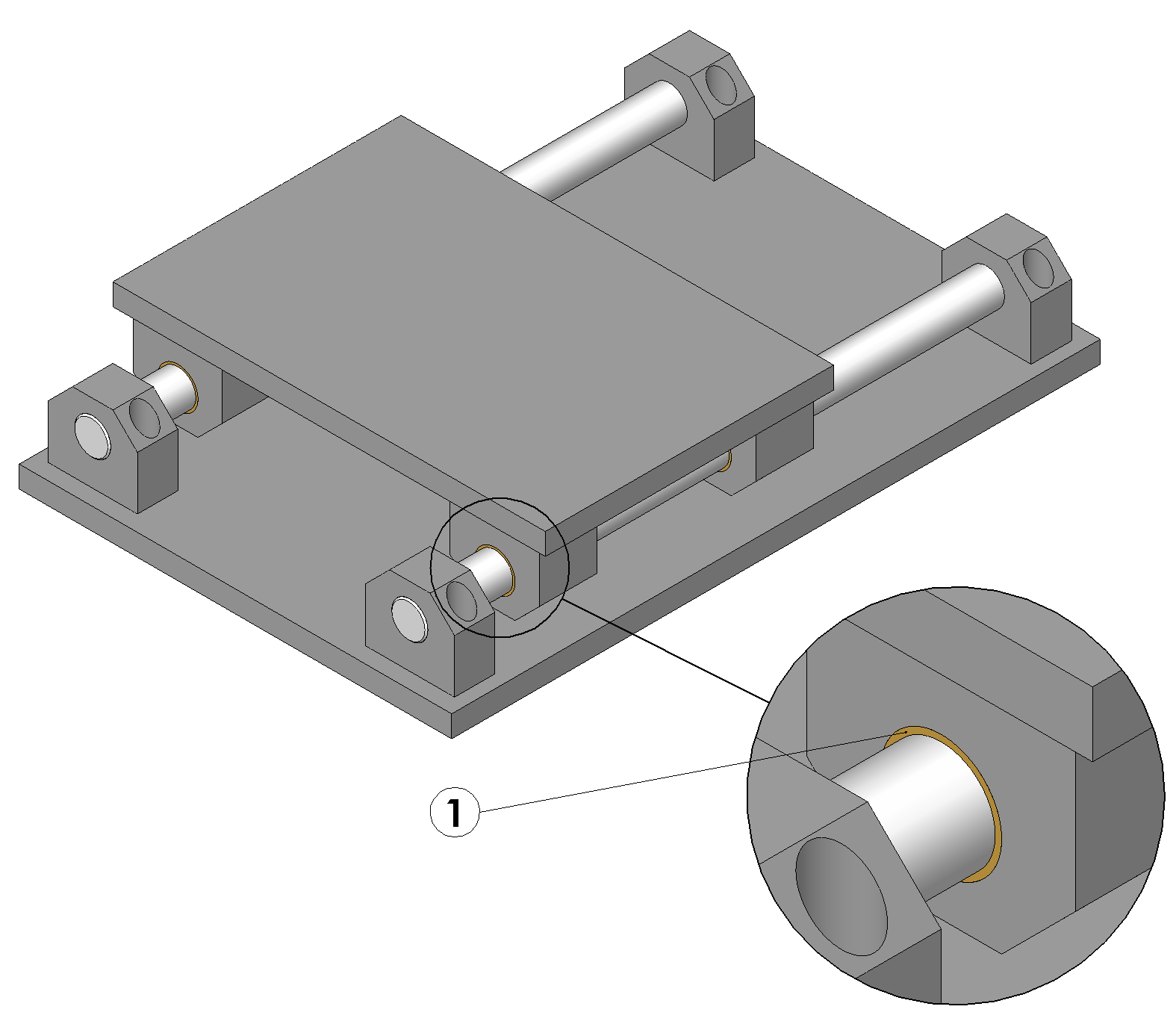 Simplified linear table with round guide and guide bushing. The bearing is labeled with a 1.